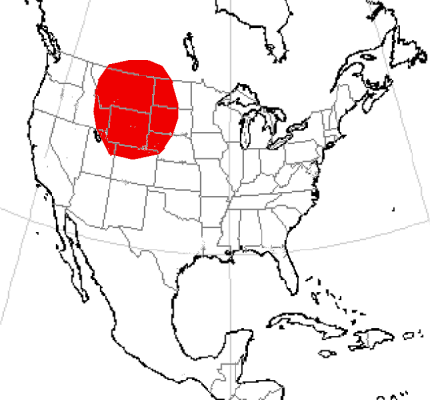 Range of Trigenicus based on fossil record